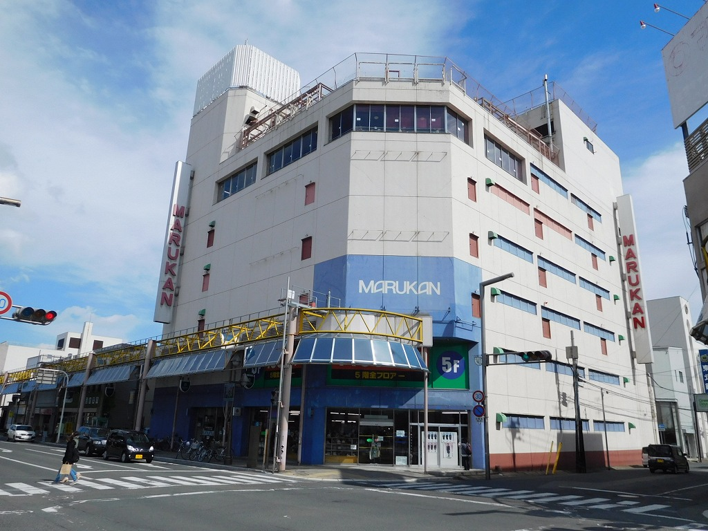 Marukan depart (Hanamaki,Iwate,Japan)